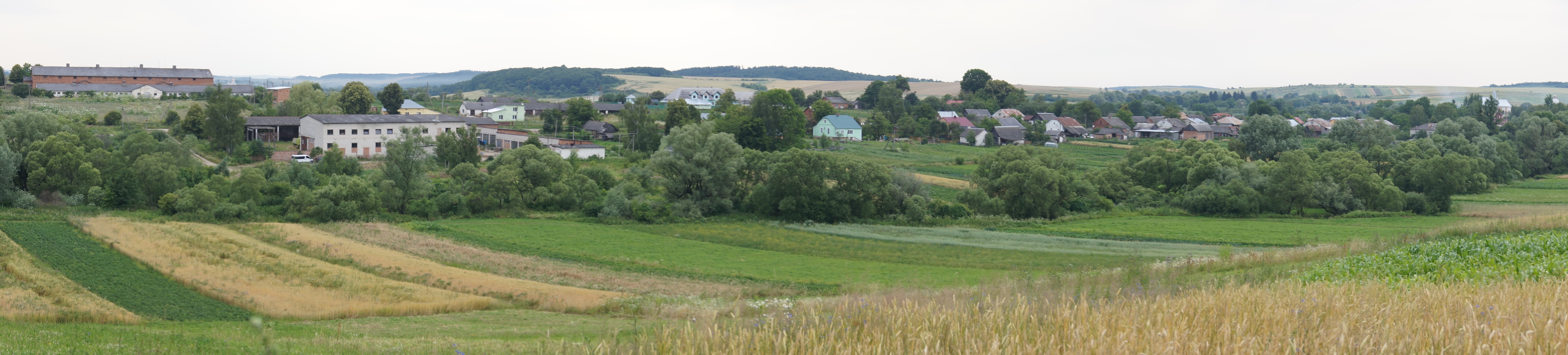 Mostys'kyi district, Lviv Oblast, Ukraine